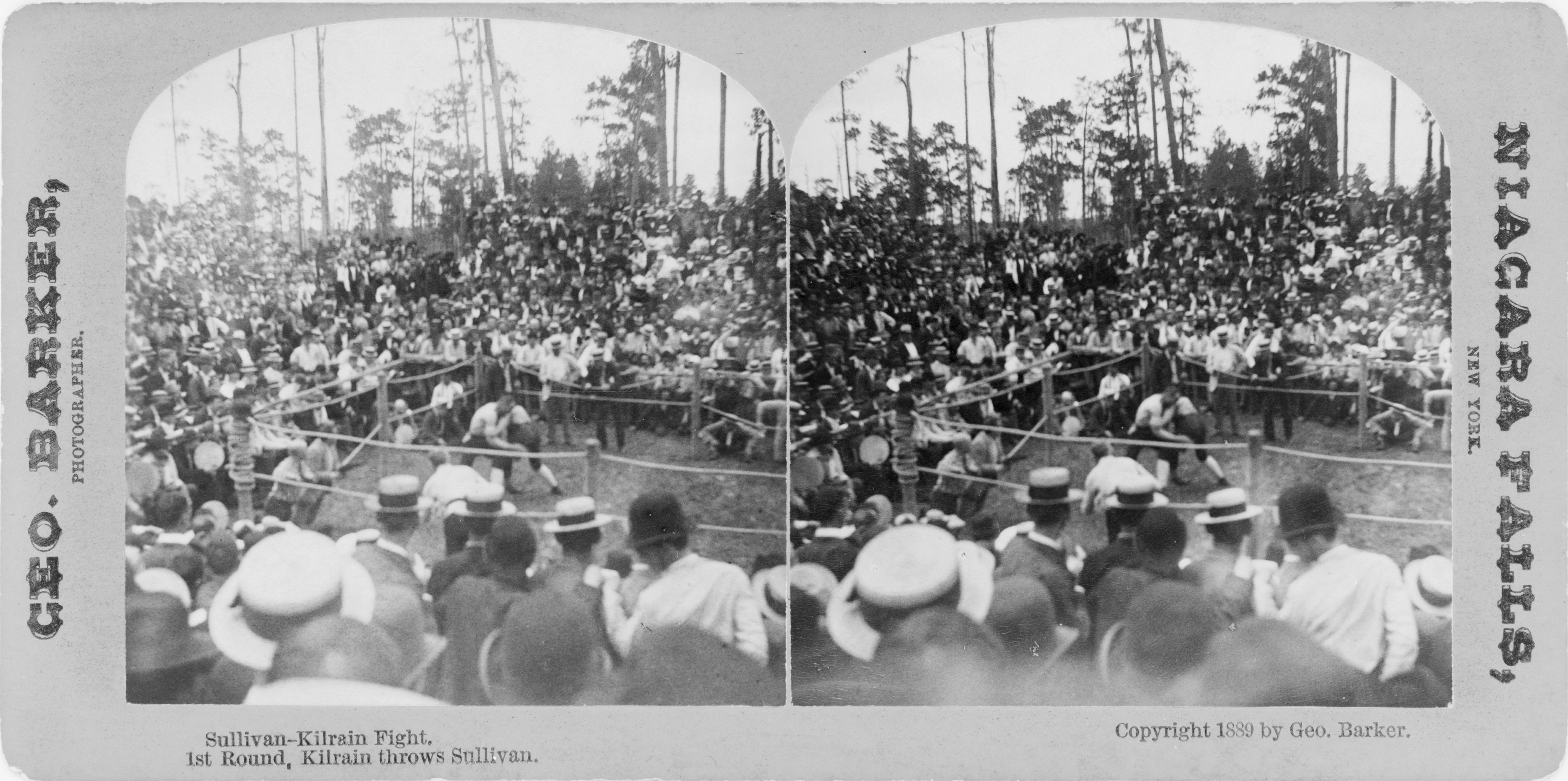 Stereocard of John L. Sullivan - Jake Kilrain fight, 1898. "1st round, Kilrain throws Sullivan"